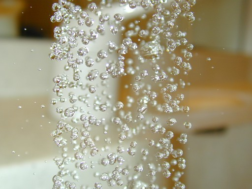 Flash photo of running showerhead faucet taken on 2000-09-24 with built-in flash of Nikon Coolpix 950. Reduced from 2 Mpix original.